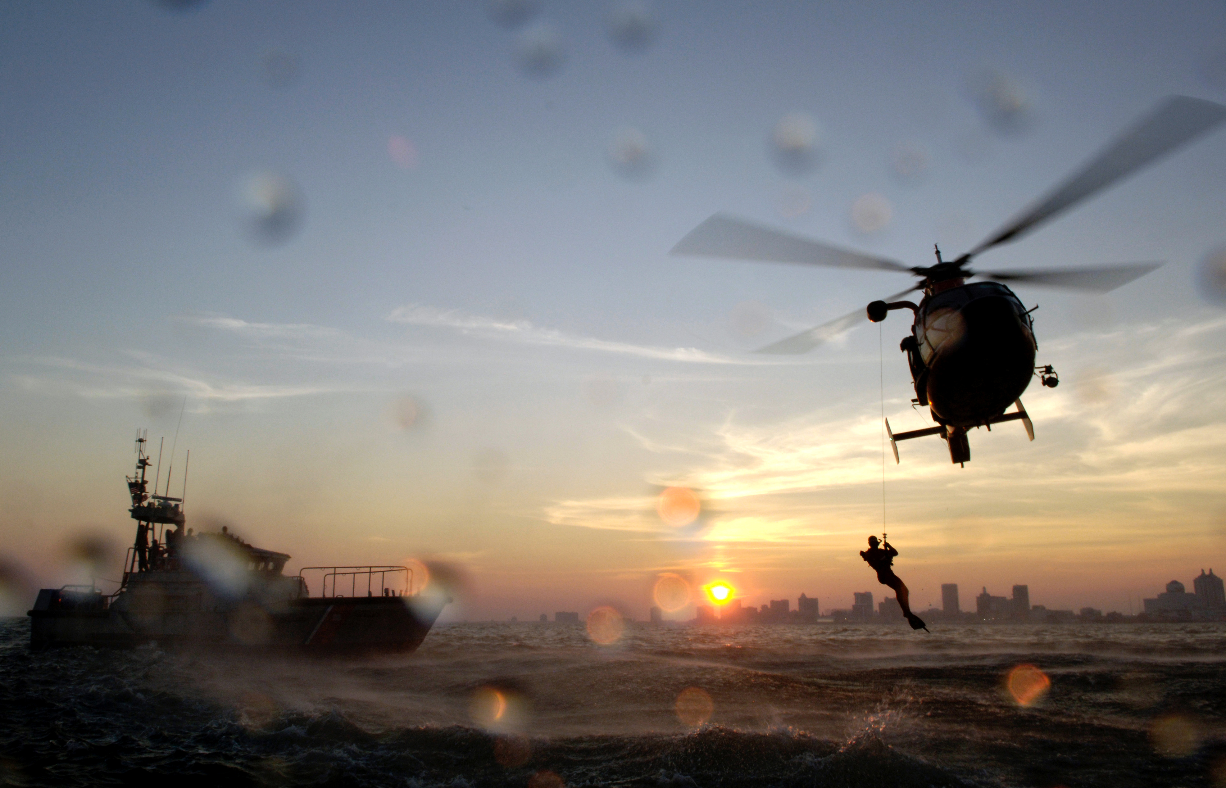 Atlantic City, NJ – A Coast Guard rescue swimmer from Air Station Atlantic City prepares to enter the water off of Atlantic City, NJ, during a water rescue training excercise